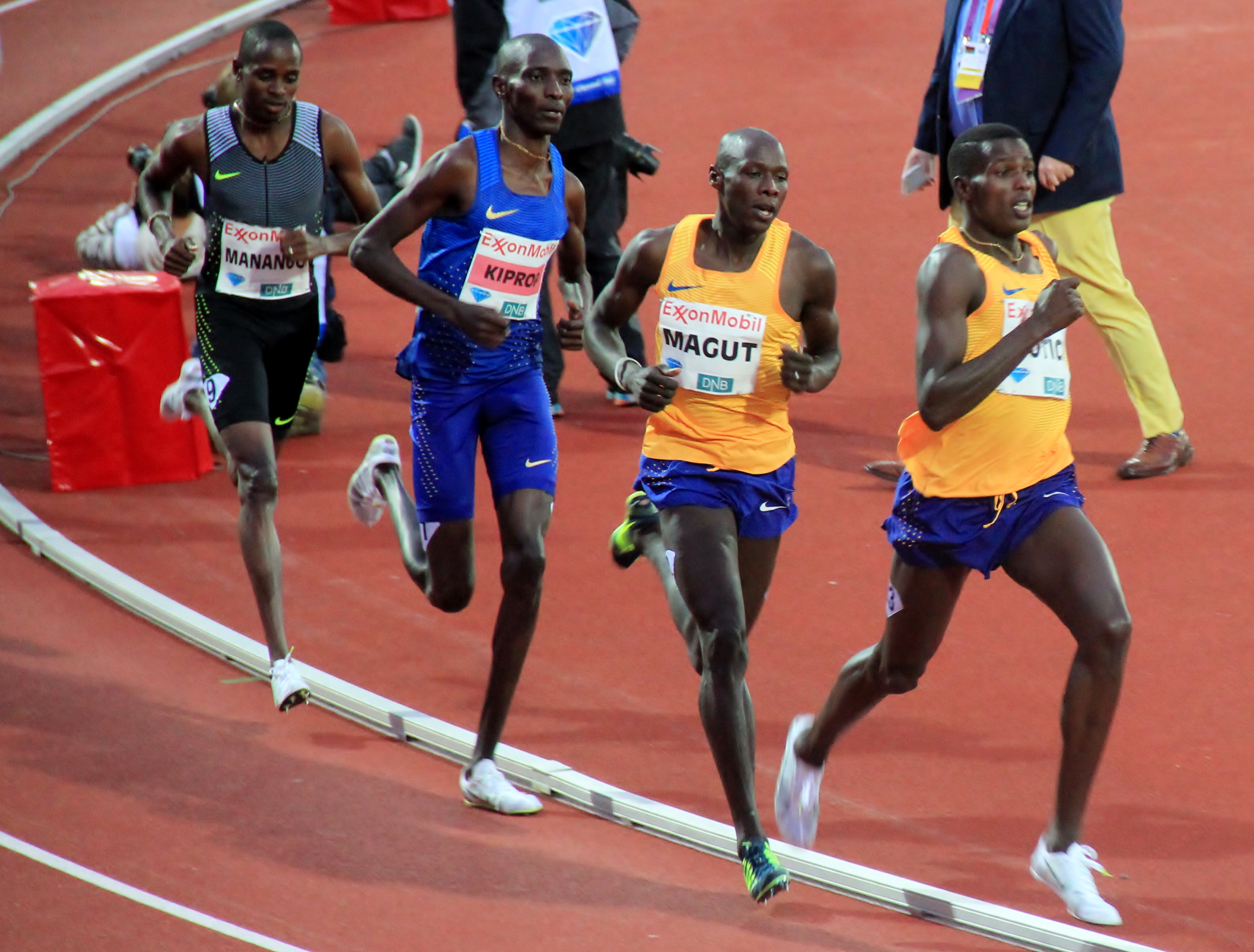 The Dream mile at the 2016 Bislett Games